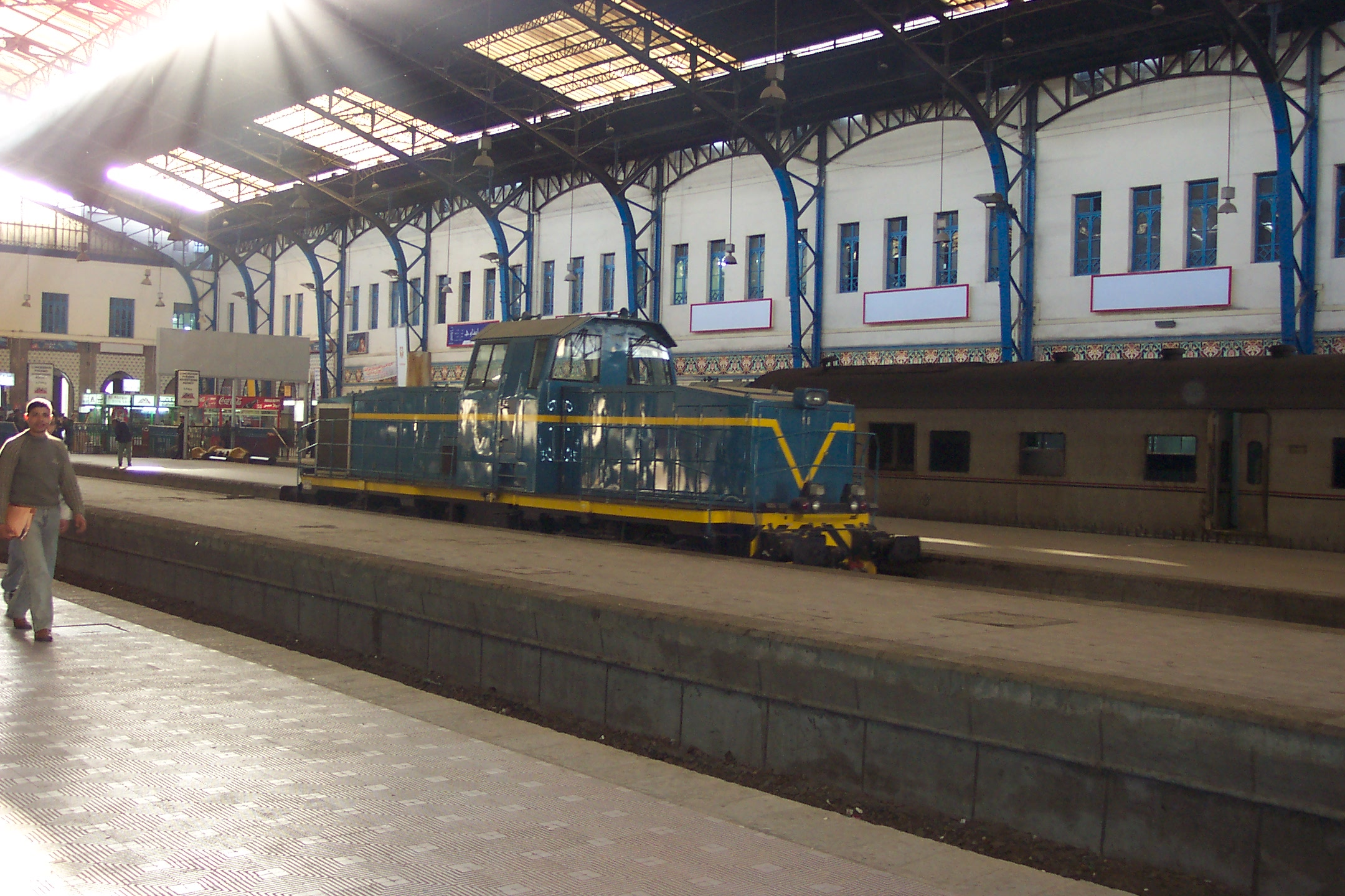 Raamses Station, Cairo, Egypt